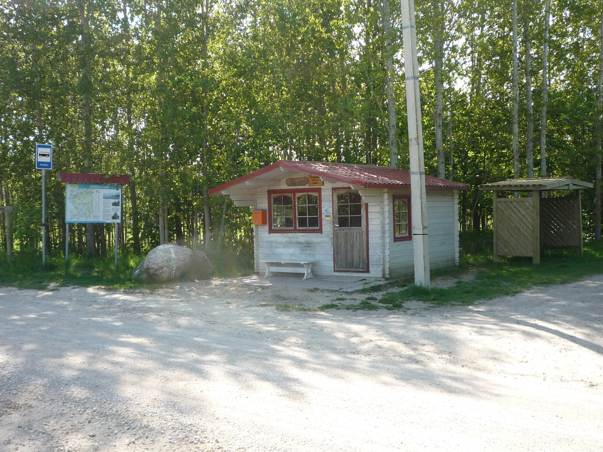 Bus stop Puise I (Puise rannamägi). Tuuru-Puise road. Puise village, Ridala parish, Lääne county, Estonia.